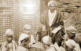 التعيم